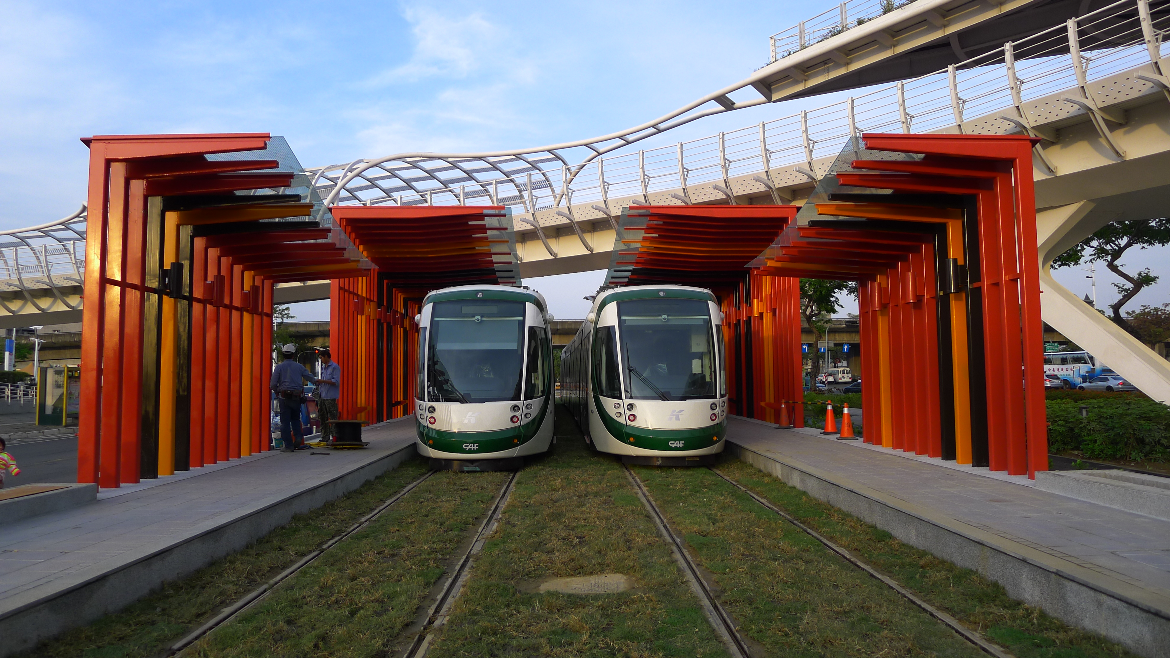 The LRT Star of Cianjhen Station of KMRT Circular Line